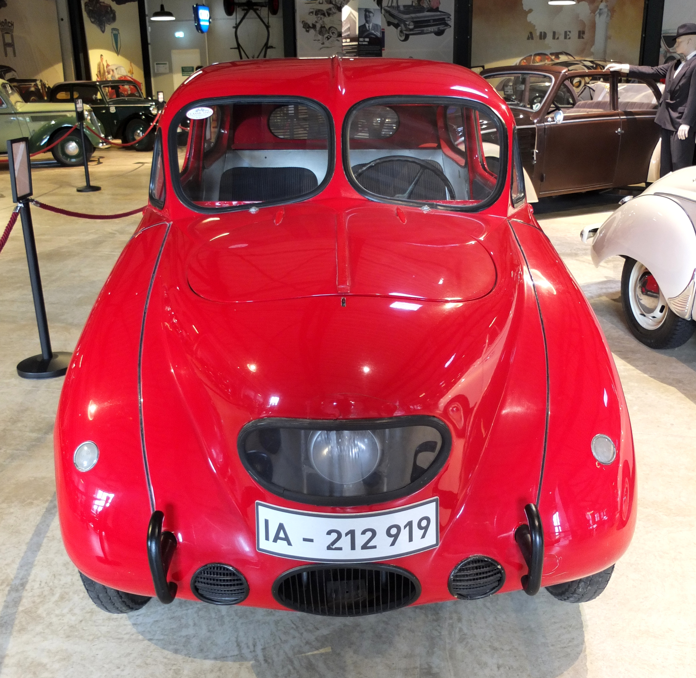 Very rare car of the former German brand "Leichtbau Maier" (1934-1935), model 0501/35, in Zylinderhaus Bernkastel-Kues